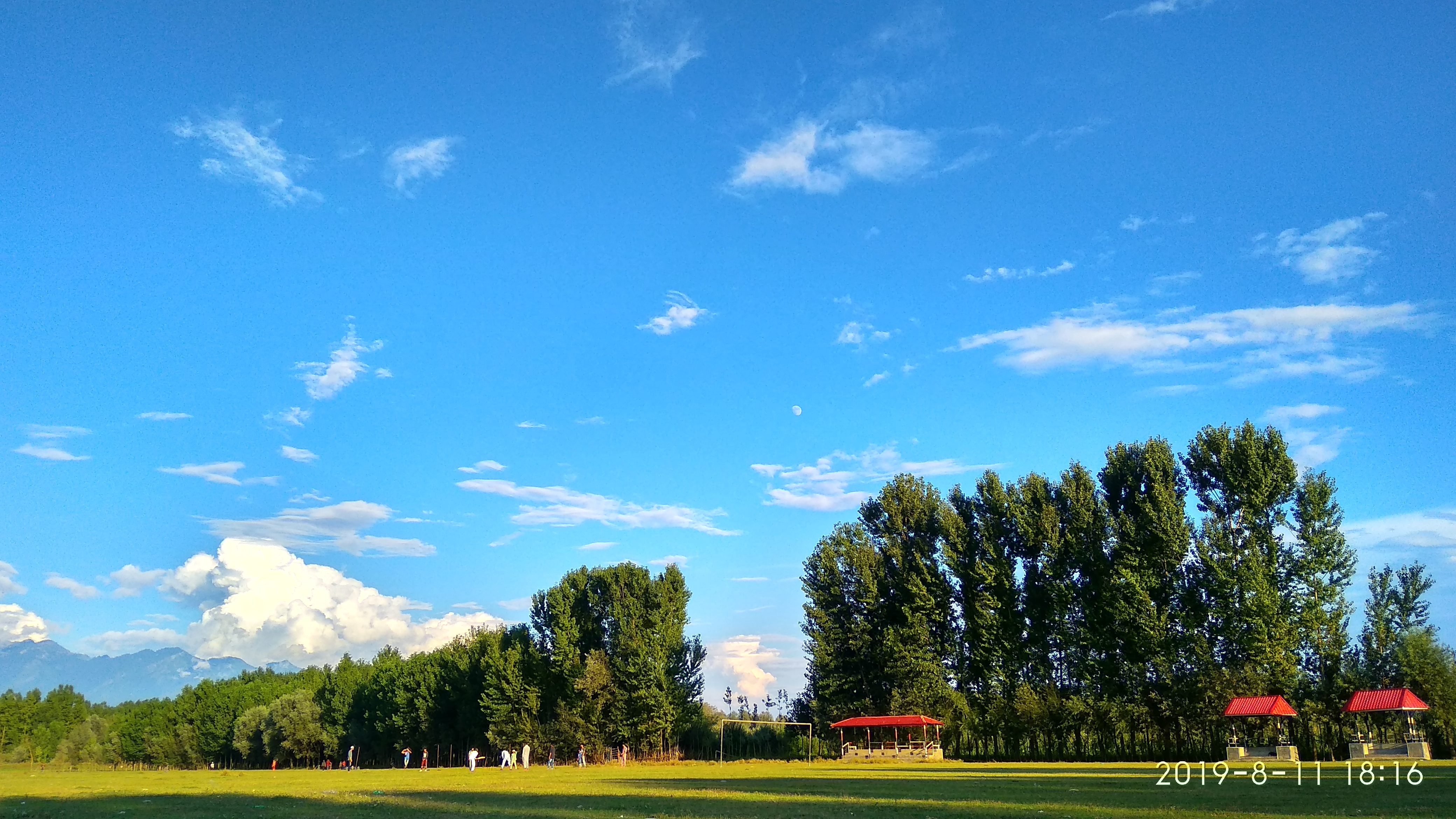 Playing